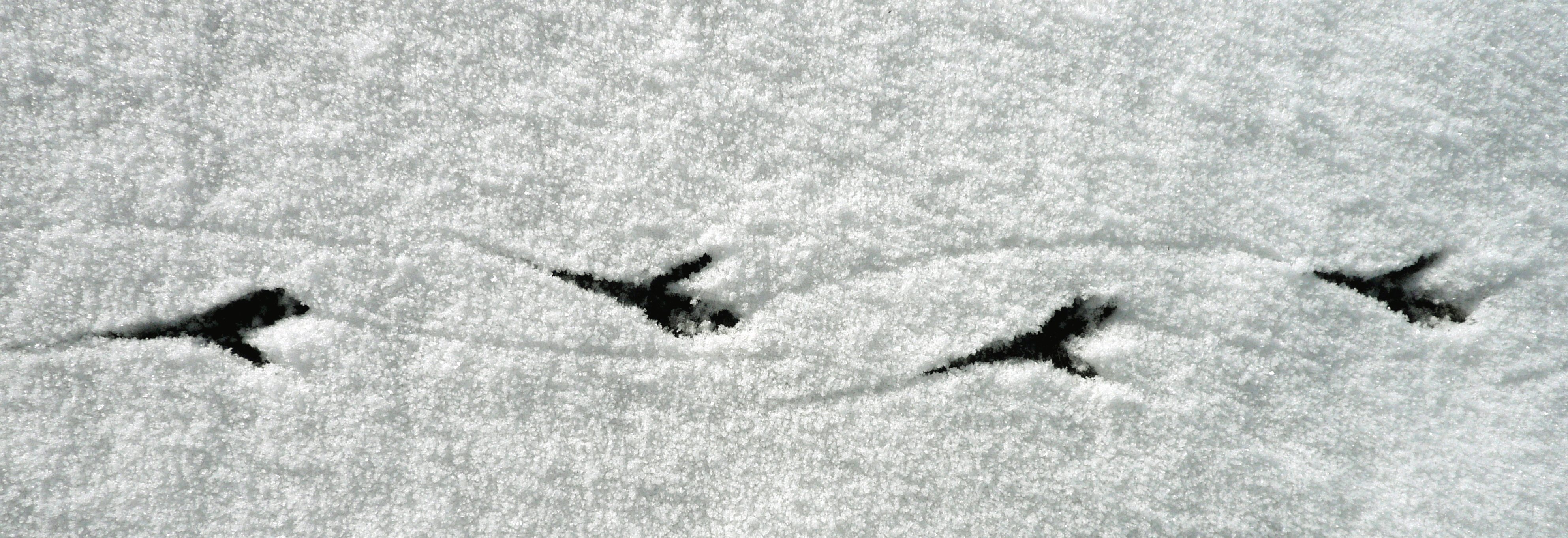 Traces of crow in snow